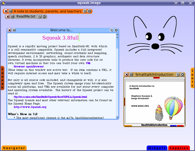 A screenshot of the default configuration of the Squeak VM as shipped on Kubuntu and Debian.